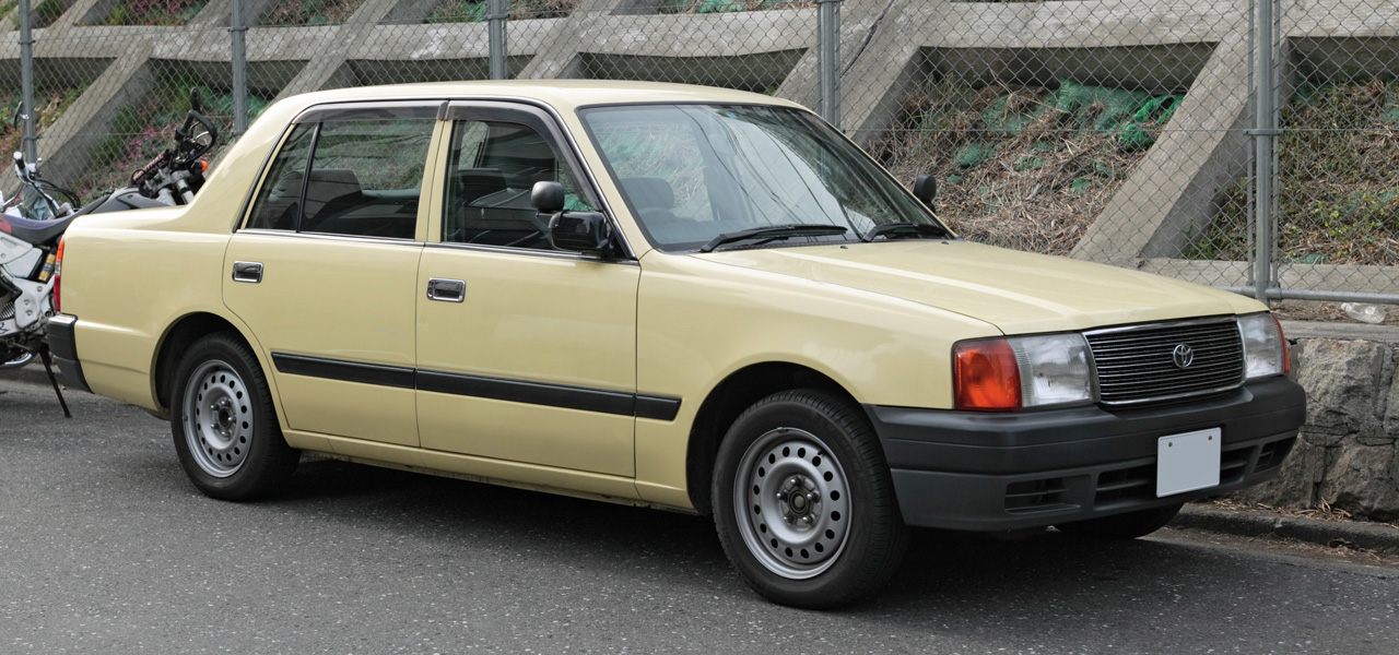 Toyota Comfort